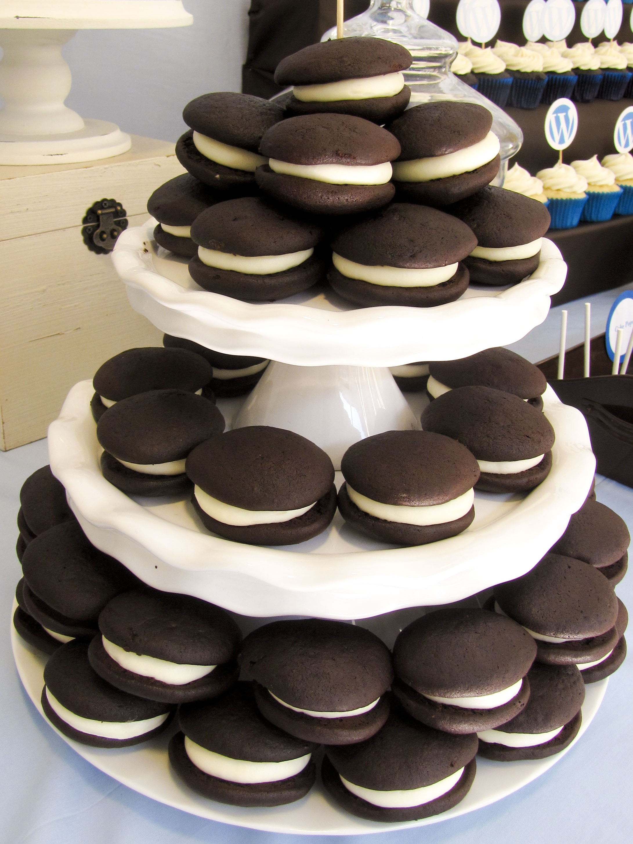 In collaboration with Les Invitations Paper Candy we prepared a dessert table for WordCamp Montreal. To satisfy the sweet tooth of the 200 attendees we baked cupcakes, brownie pops, whoopie pies, and chocolate chip cookies. To go along with the WordCamp colour scheme we accented the table with blue cotton candy, blue candy coated chocolate, and old fashioned blue raspberry candy sticks. Follow us on Twitter. Find us on Facebook.